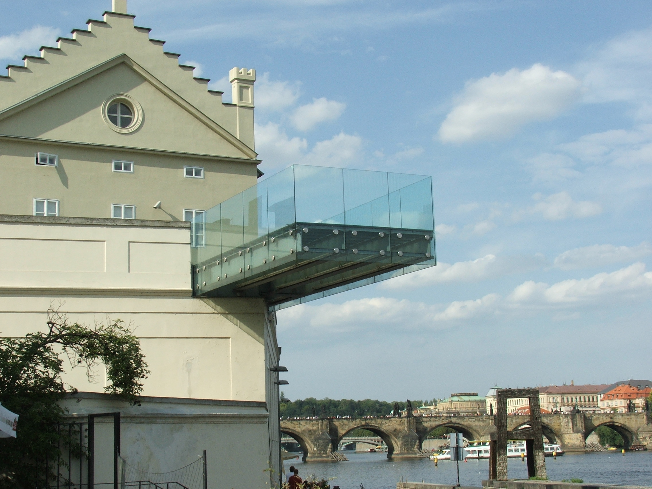 Kampa Museum at island Kampa in Prague Malá Strana displays collection of Czech modern art. Controversial reconstruction brought modern architecture near Charles Bridge to the middle of historical centre of Prague.